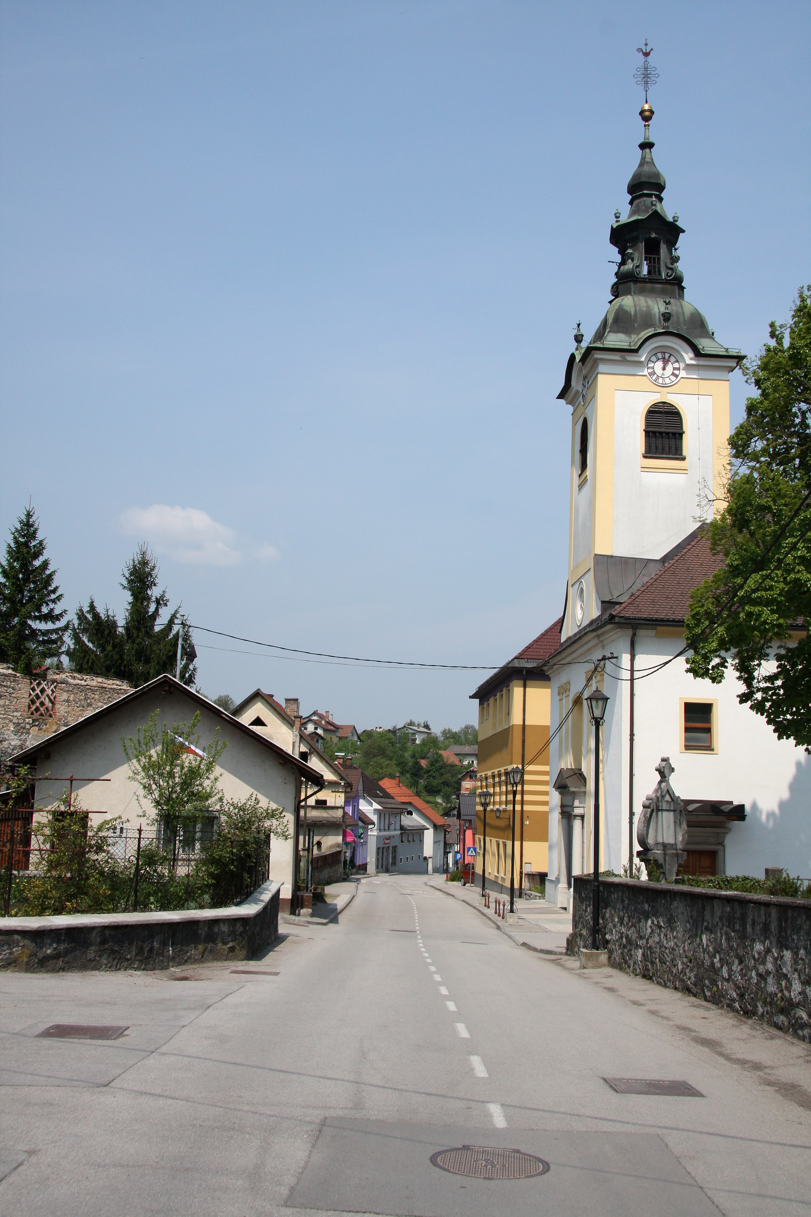 Center of Borovnica, Slovenia. On the right side, the church of St. Marjeta is visible and behind it, the primary school.